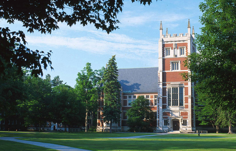 Hubbard